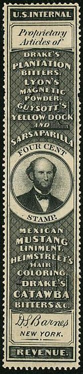 Image of Private die proprietary revenue stamp, 4c, 1865